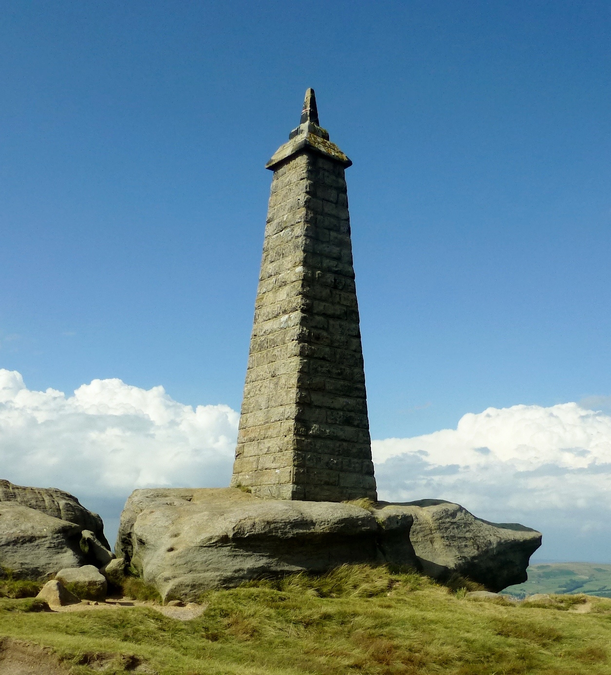 Wainman’s Pinnacle by Rude Health